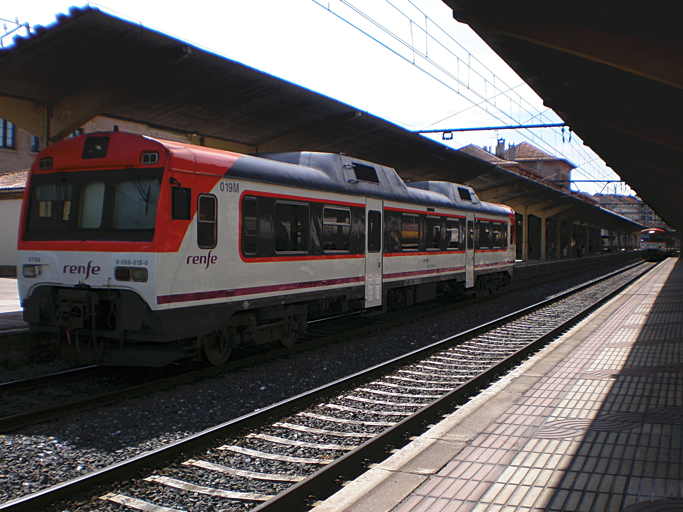 Ourense railway station (Spain).